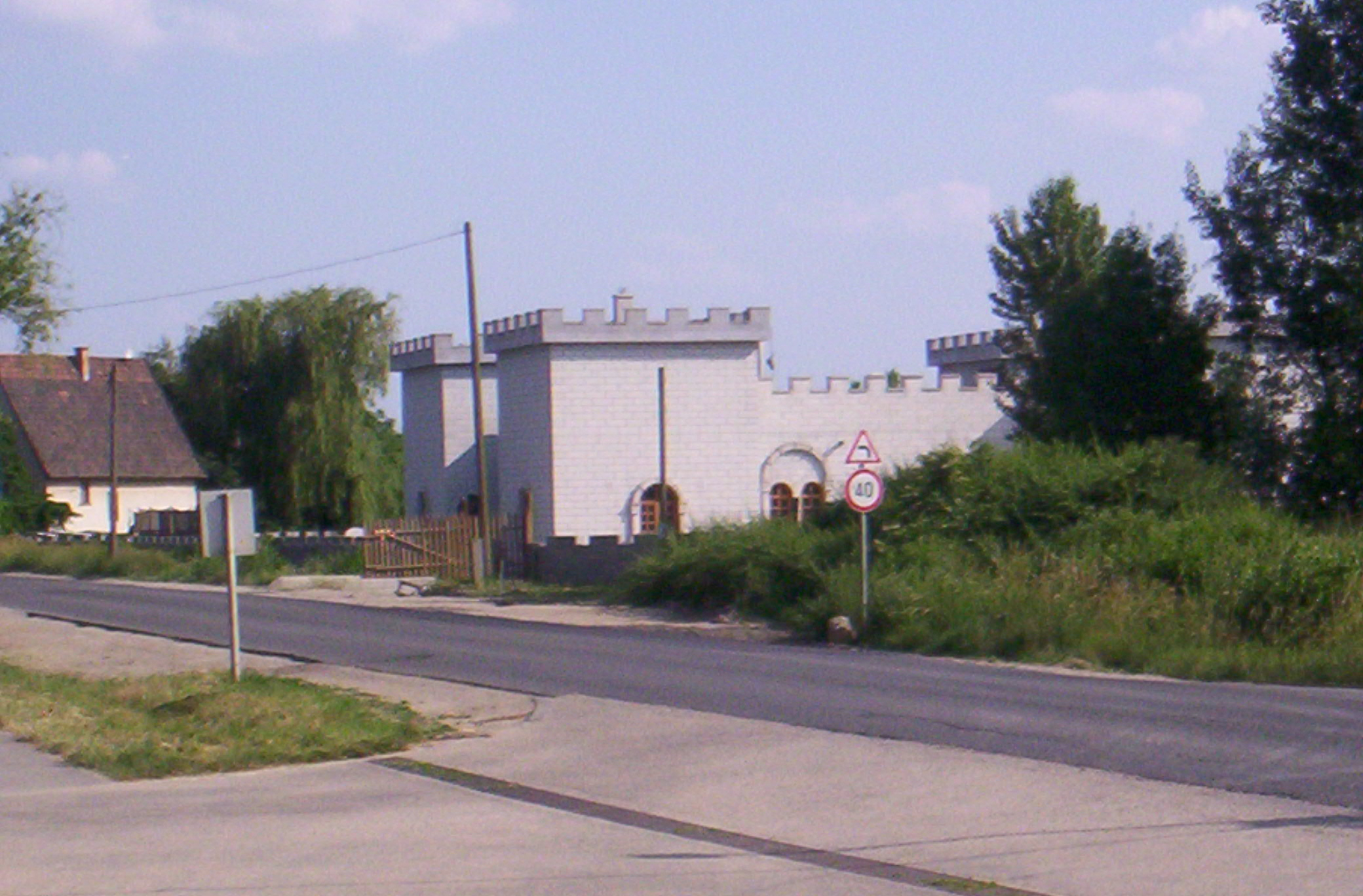 The "fortress" of Ecser.